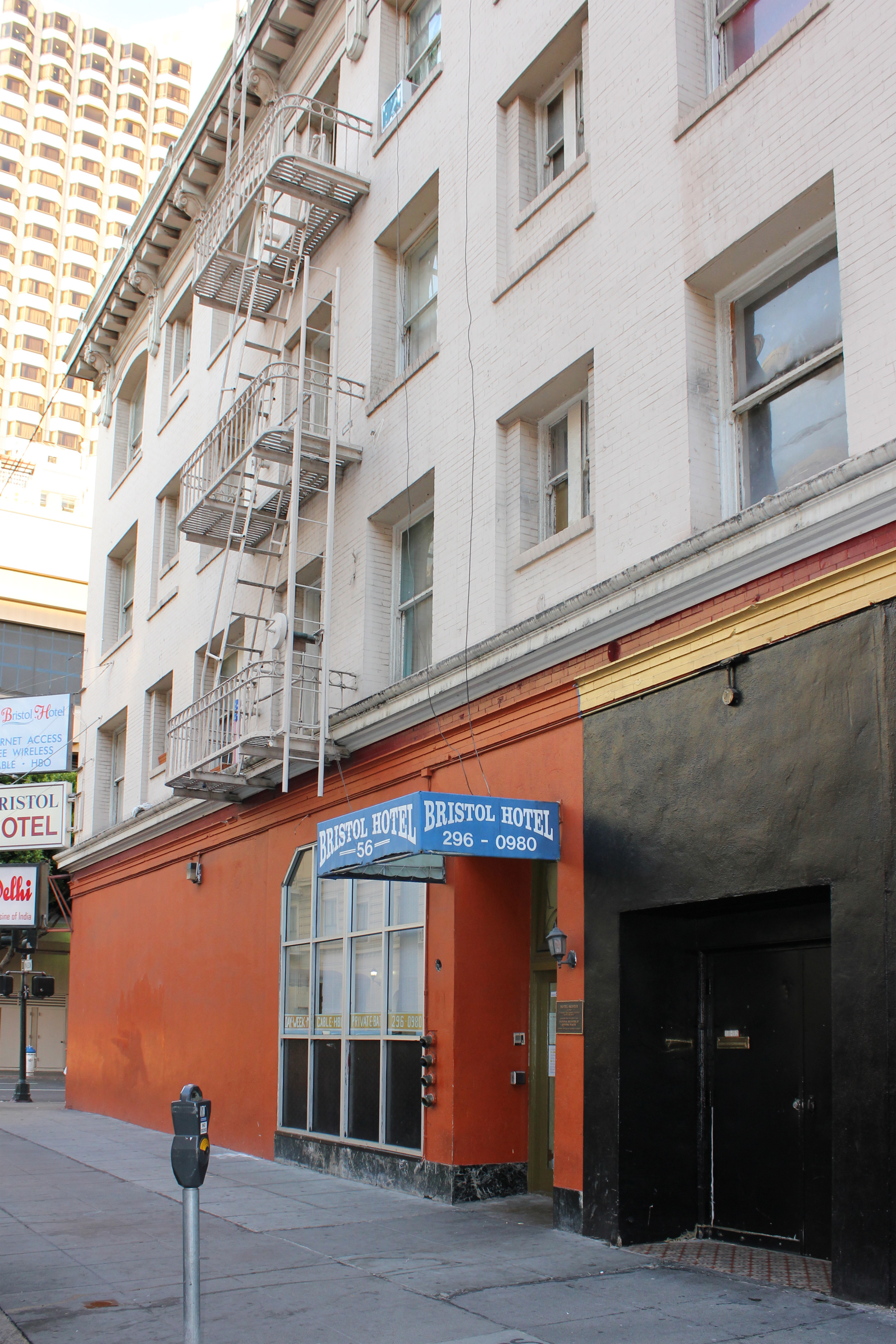 The Bristol Hotel in San Francisco